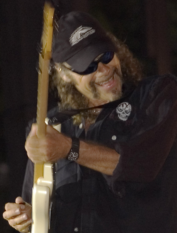 Michael Monarch, Formerly of Steppenwolf